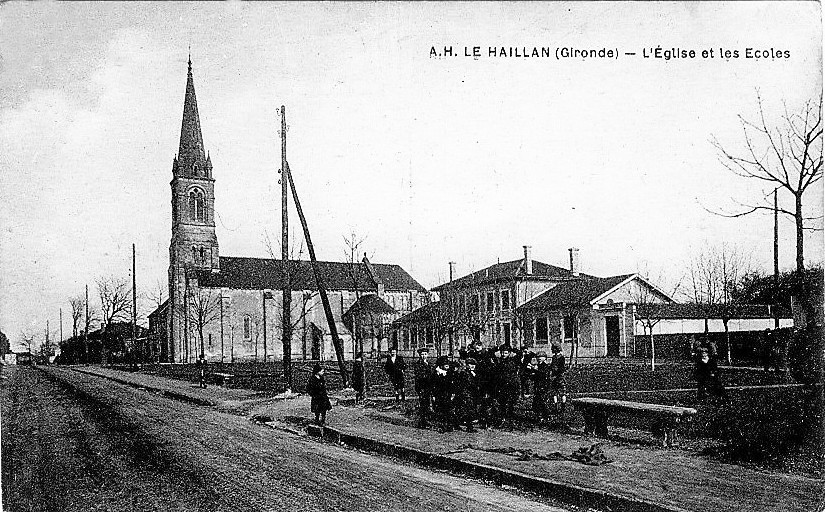 Église & Écoles